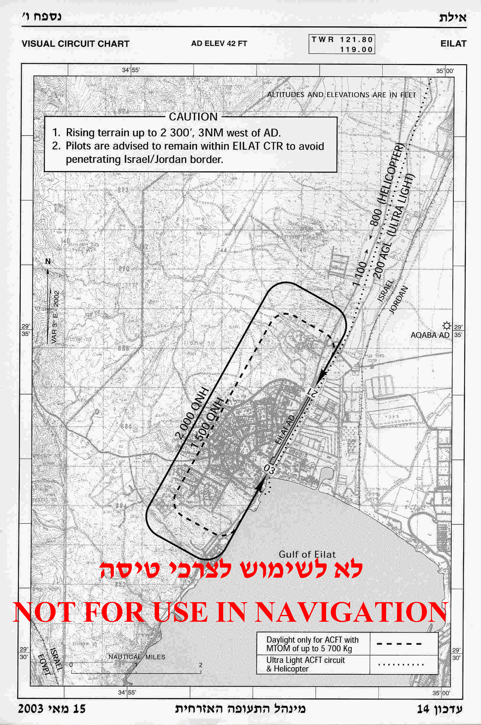 Visual Circuit Chart (Airfield traffic pattern) of Eilat (Israel) Aerodrome.